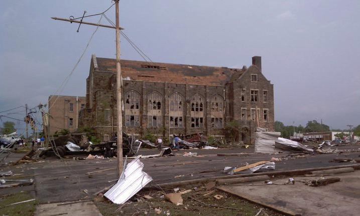 First United Methodist Church in Cullman, Alabama, after the tornado of April 27, 2011